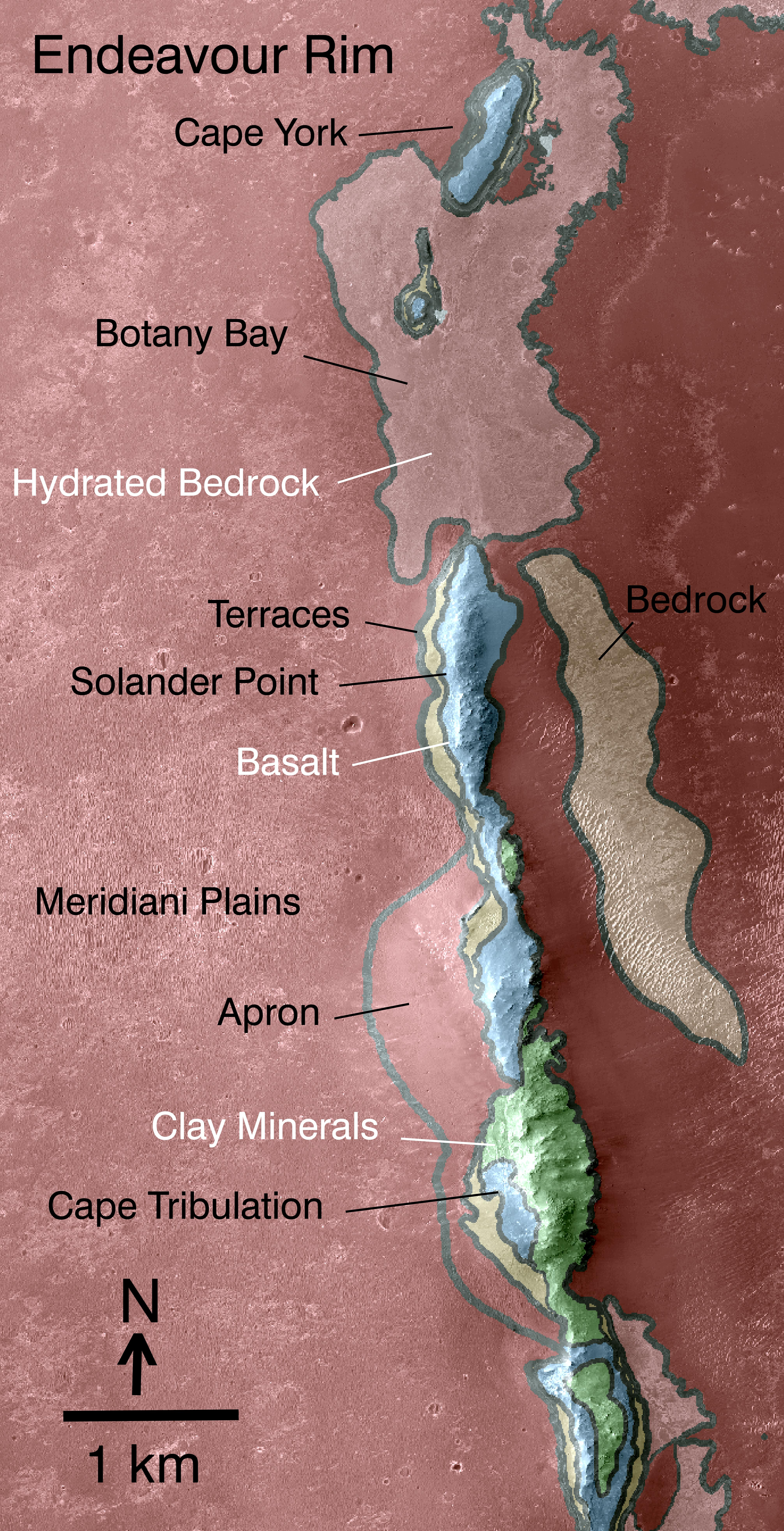 This map indicates some of the geological information gained from orbital observations of Endeavour Crater, which has been the long-term destination for NASA's Mars Exploration Rover Opportunity since mid-2008. Endeavour Crater is about 22 kilometers (14 miles) in diameter. As indicated by the scale bar of one kilometer (0.6 mile), this map covers only a small portion of the crater's western rim. A discontinuous ridge runs north-south, exposing basalt (coded blue) and clay minerals (coded green) believed to be from a time in Martian history before the deposition of sulfates on the portions of the Meridiani Plains region that Opportunity has seen during the rover's first seven years on Mars. The rover team plans to begin Opportunity's exploration of the Endeavour rim near "Cape York," which is about 6.5 kilometers (4 miles) from the rover's location in mid-December 2010. Cape York is nearly surrounded by exposures of hydrated bedrock. From there, the planned exploration route goes south along the rim fragment "Solander Point," to "Cape Tribulation," where clay minerals have been detected. This geological map is based on observations by the Compact Reconnaissance Imaging Spectrometer for Mars (CRISM) on NASA's Mars Reconnaissance Orbiter.